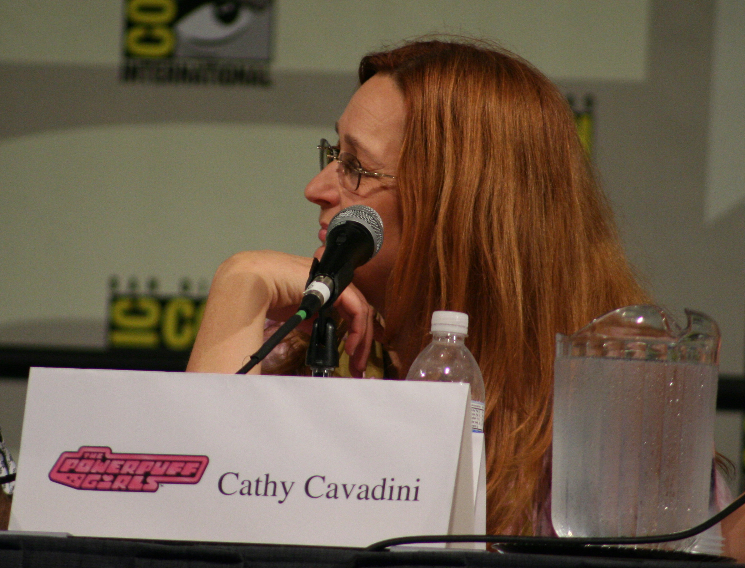 Cathy Cavadini at San Diego Comic-Con 2008's Powerpuff Girls panel.